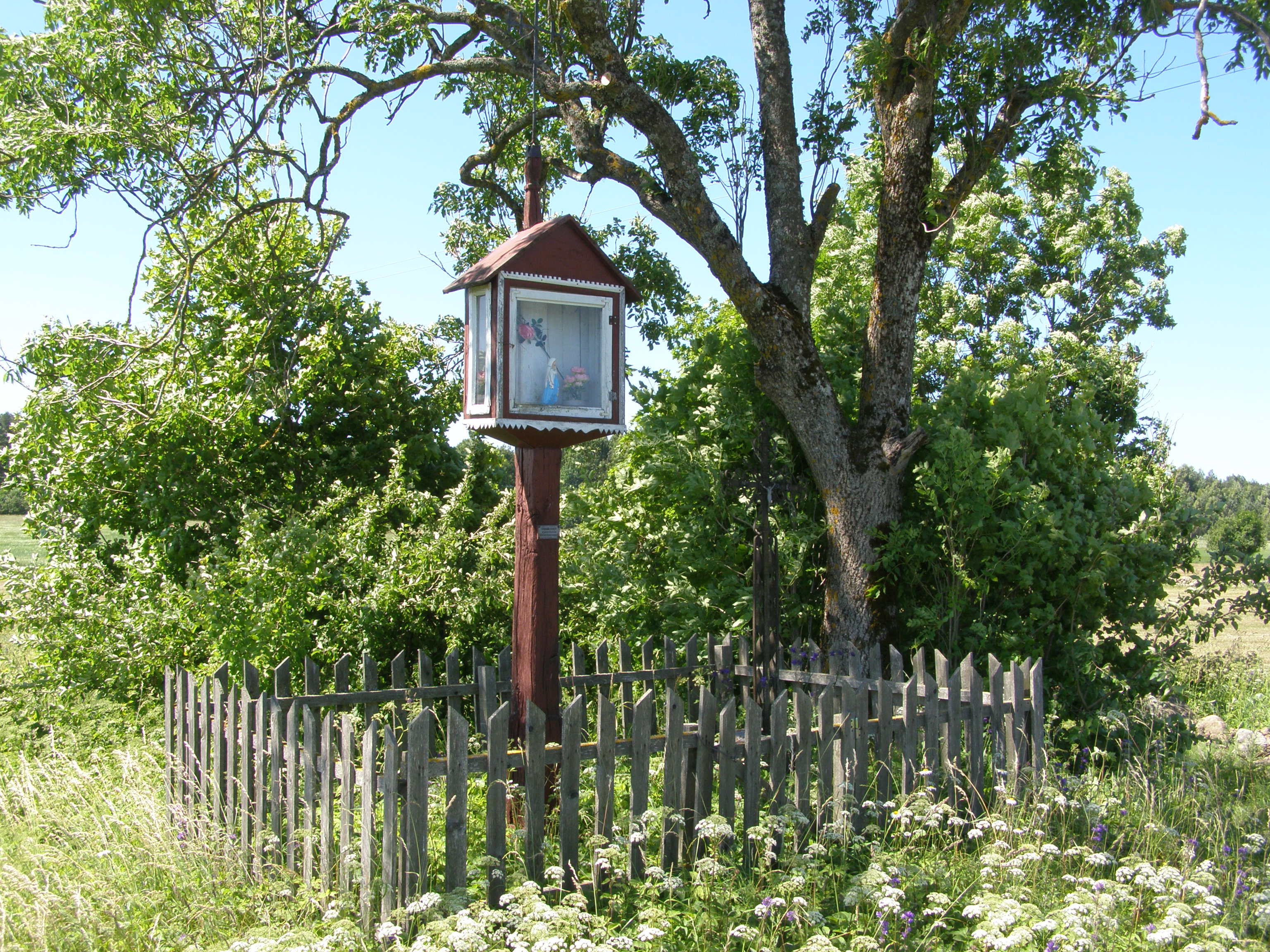 Šatilgalis, Kretinga district, LithuaniaLietuvių: Šatilgalio koplytstulpis, Kretingos rajonas, Lietuva